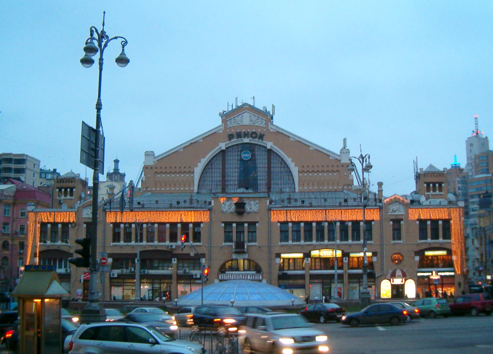 Bessarabska_Pl._in_Kyiv (with market)